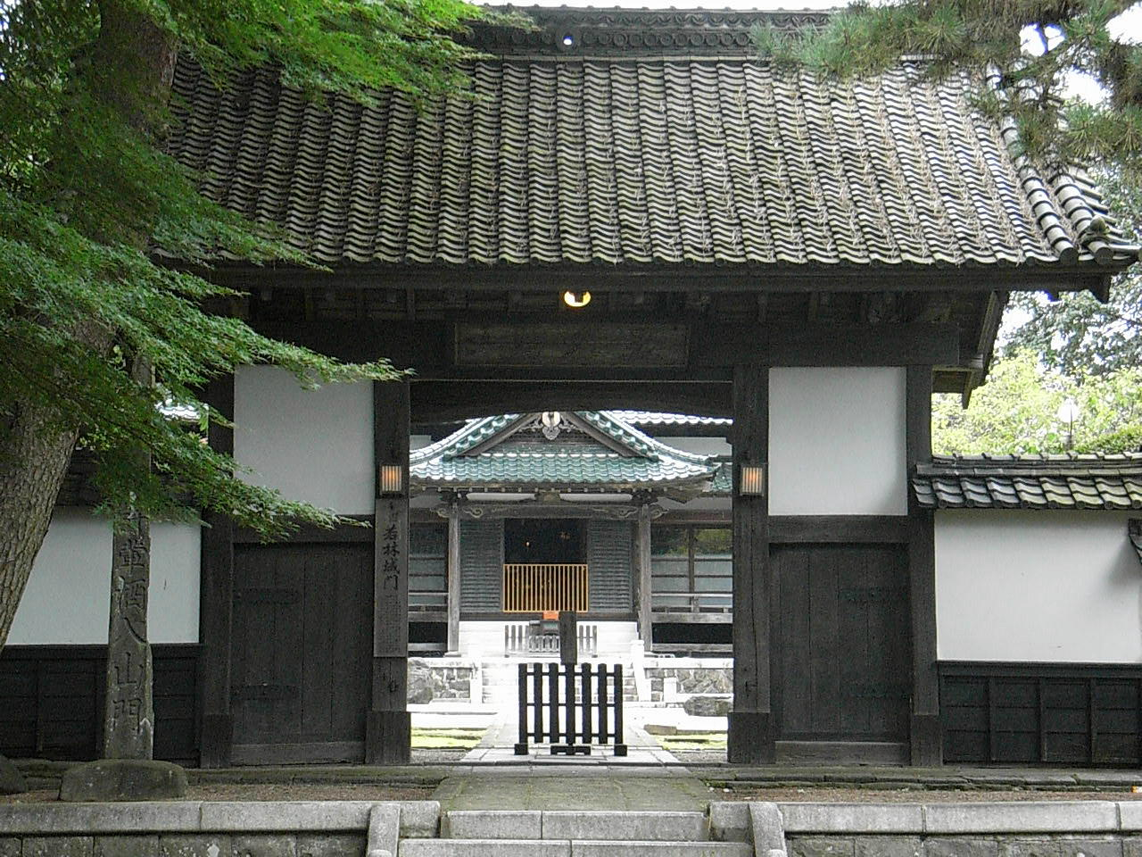 Shōon-ji Temple's Gate (old Wakabayashi Castle's Gate) - Shindera 4 chōme, Miyagino ward, Sendai, Miyagi prefecture, Japan.